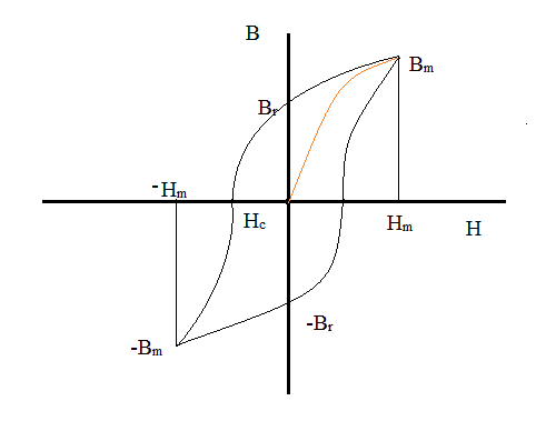 hysteresis loop, an object in a magnetic field, see the book for further info